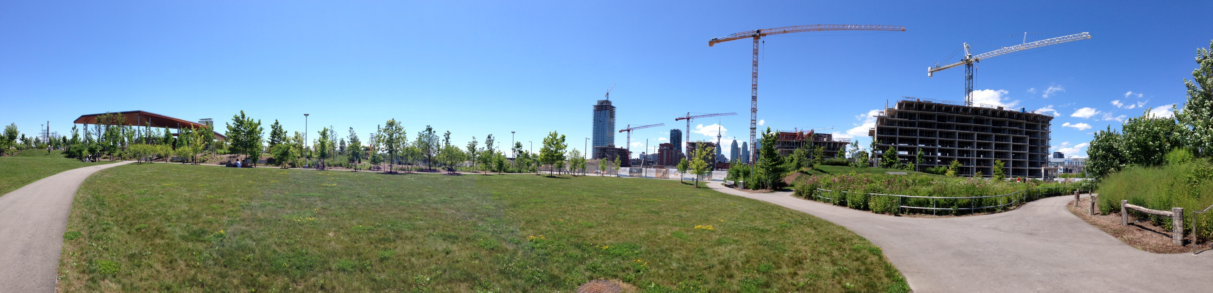 View towards downtown Toronto from Corktown Common.